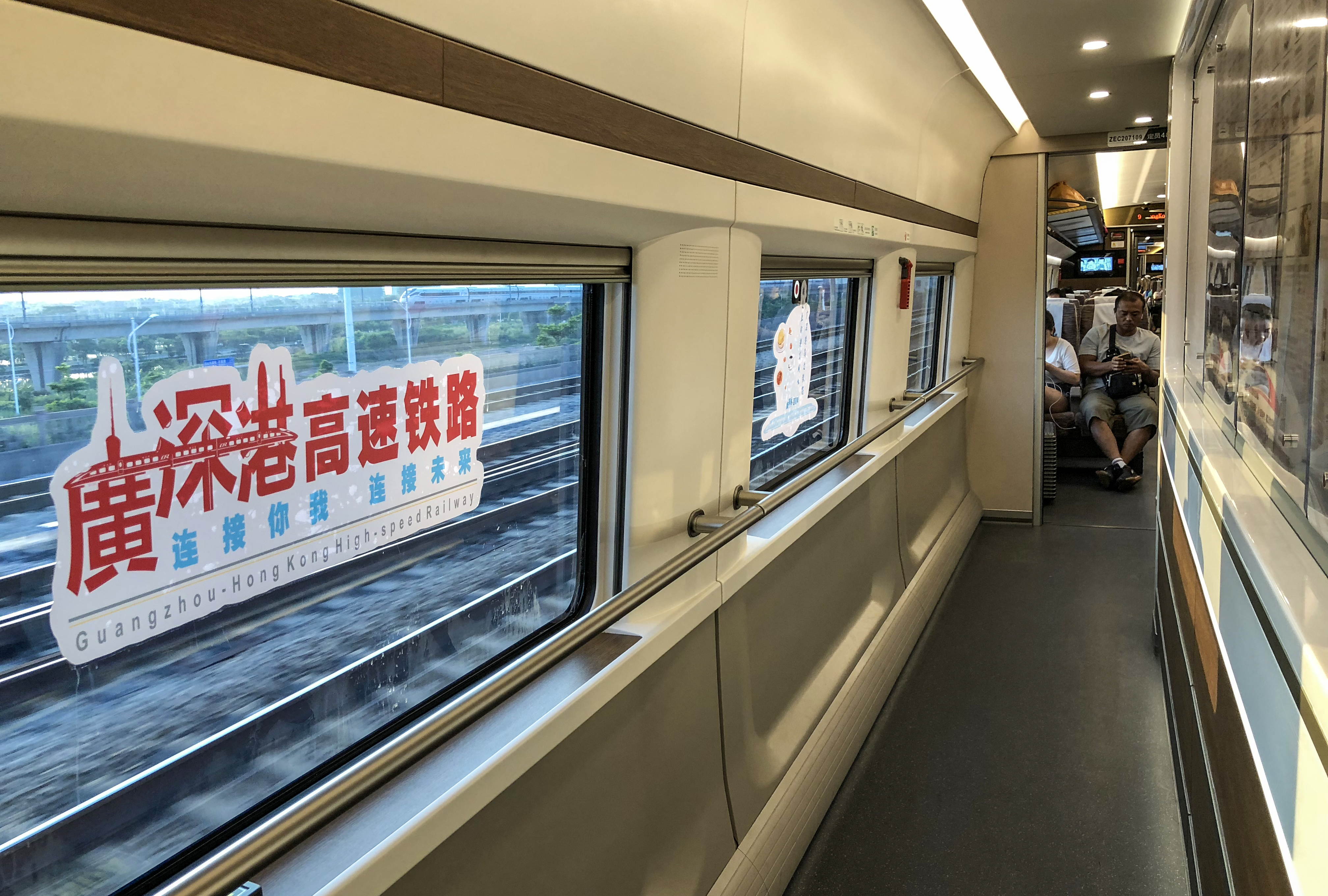 AF-A-2071 was the debut train from Guangzhou to Hong Kong on 23 September 2018, and the debut from Hong Kong to Beijing on the same day, so these markings are dedicated to this occasion.